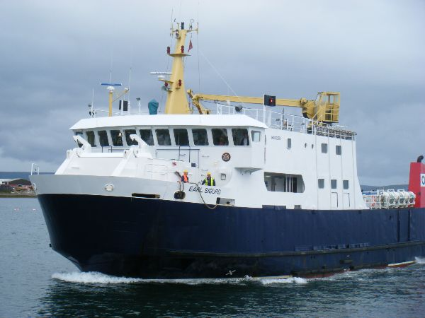 The Orkney Ferries vessel MV Earl Sigurd approaching Kirkwall. IMO Number: 8902711 MMSI Number: 232000670 Callsign: MLKN9 Length: 45 m Beam: 11 m